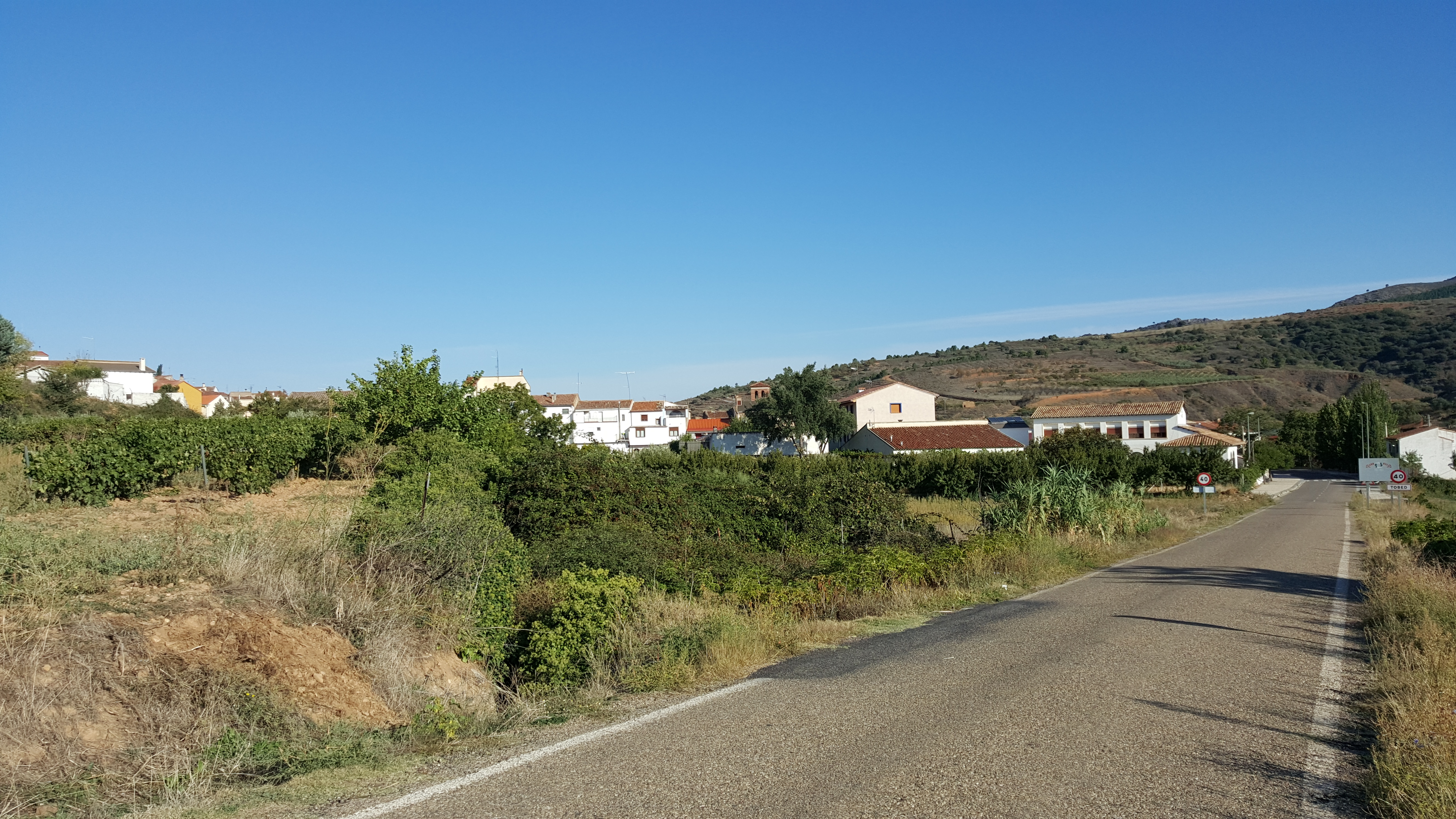 Tobed, Zaragoza, Spain